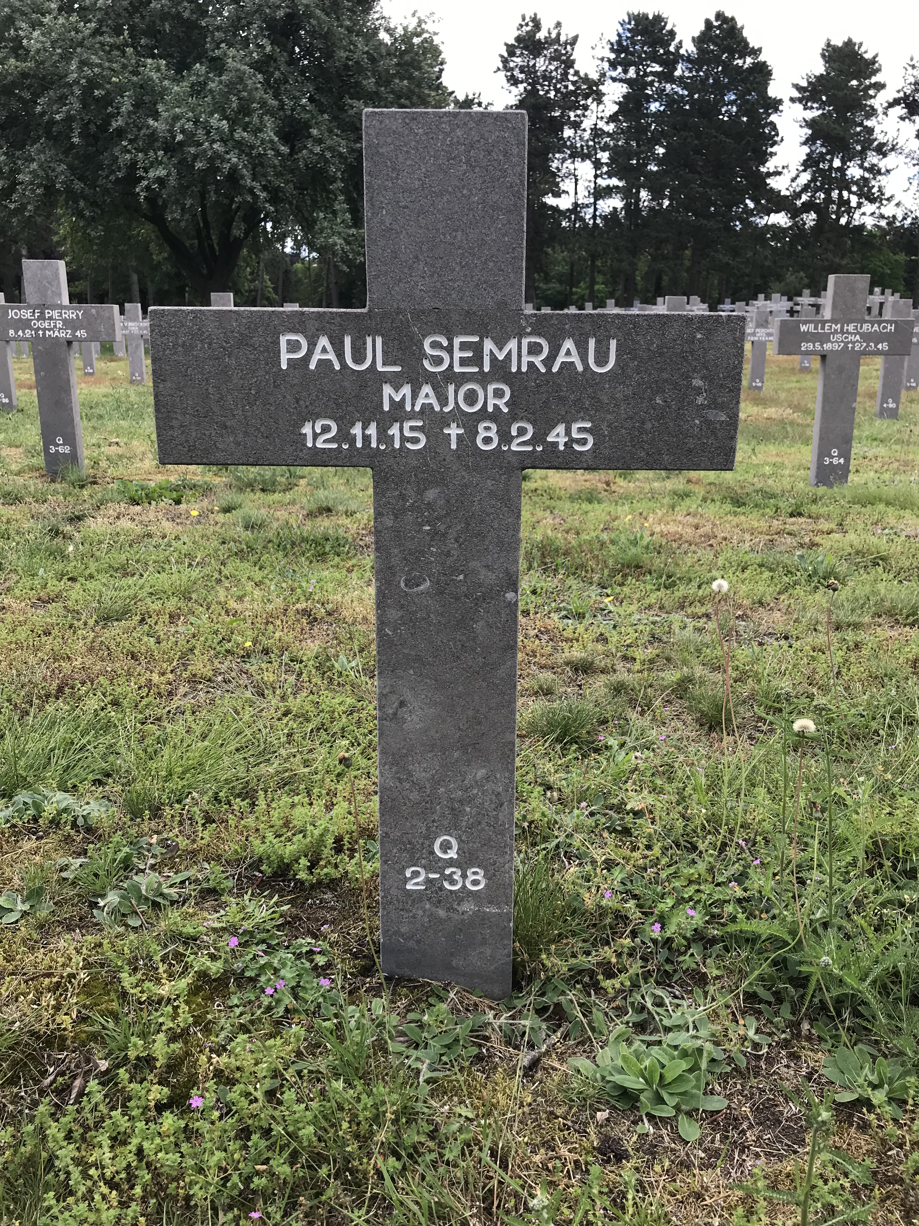 Grave of Paul Semrau Q-2-38